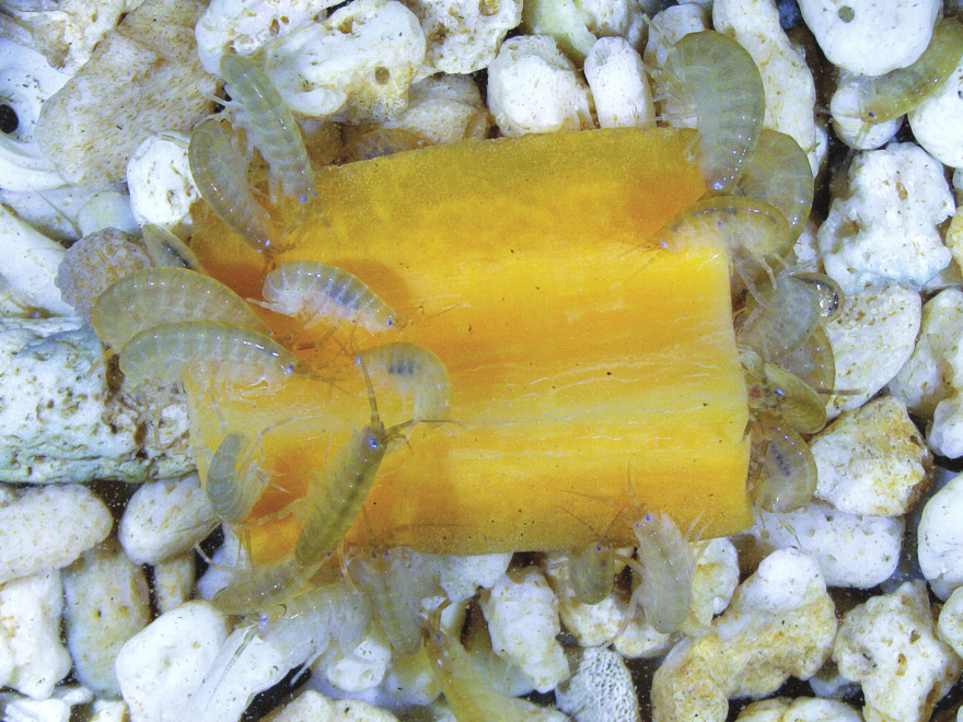 Parhyale hawaiensis - adult - feeding on a slice of carrot.